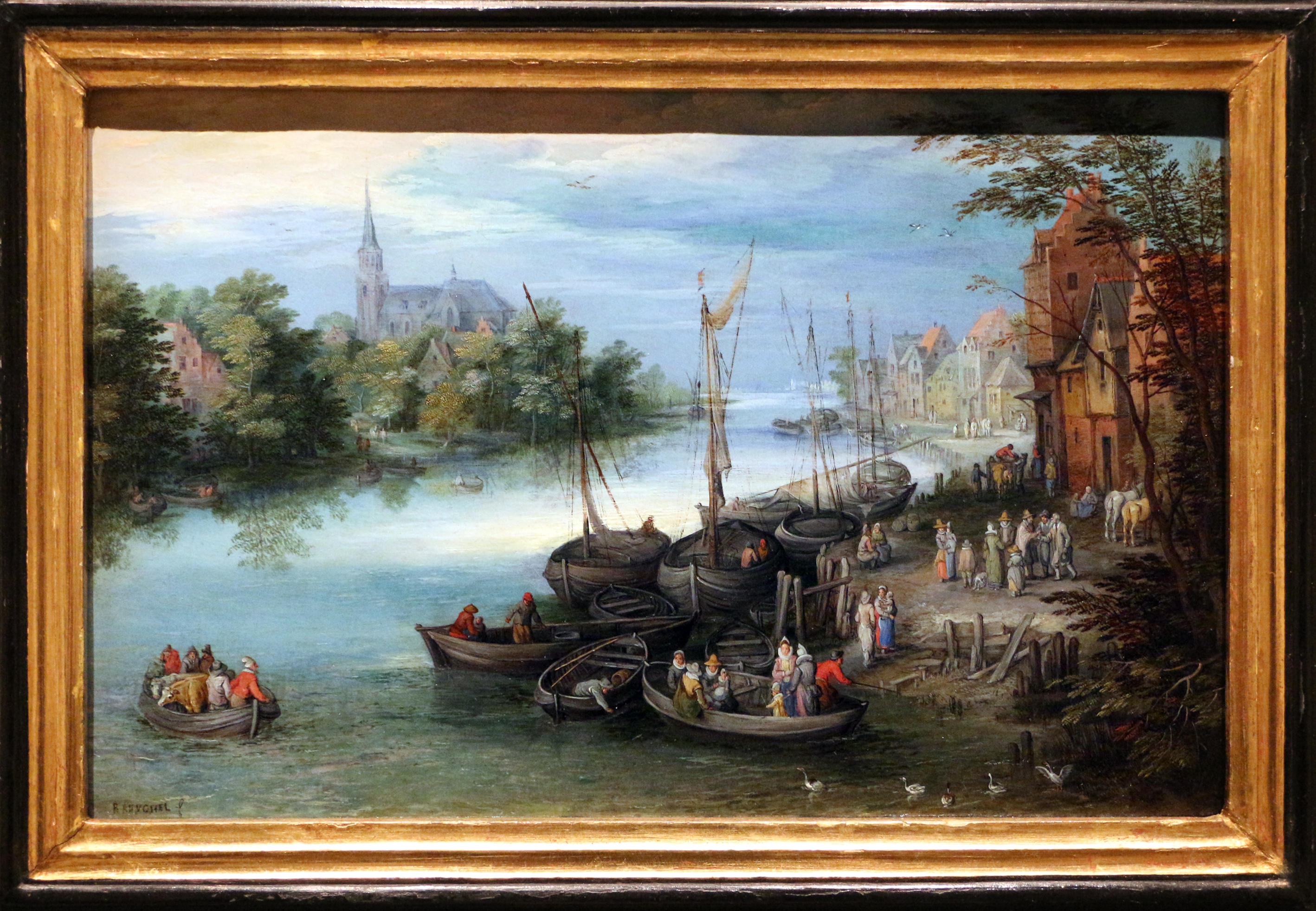 Flemish paintings in the Museu Nacional de Arte Antiga